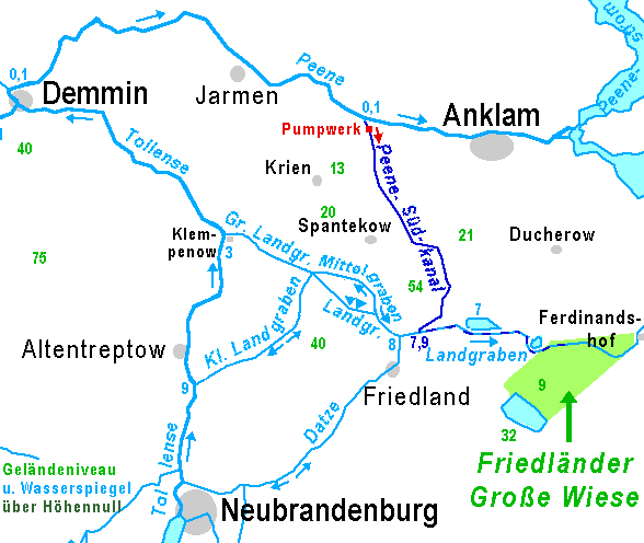 Map: Peene-Suedkanal and the cultivated Friedlaender Grosse Wiese.